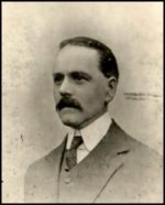 Scan of image appearing in book by Walter Morley dated 1910.